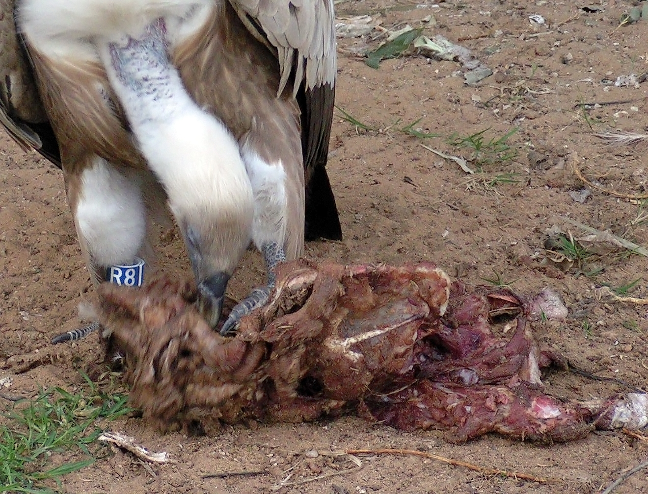 Taken in the Garden for Zoologic Research, Tel Aviv University, Israel. A Griffon Vulture eating.